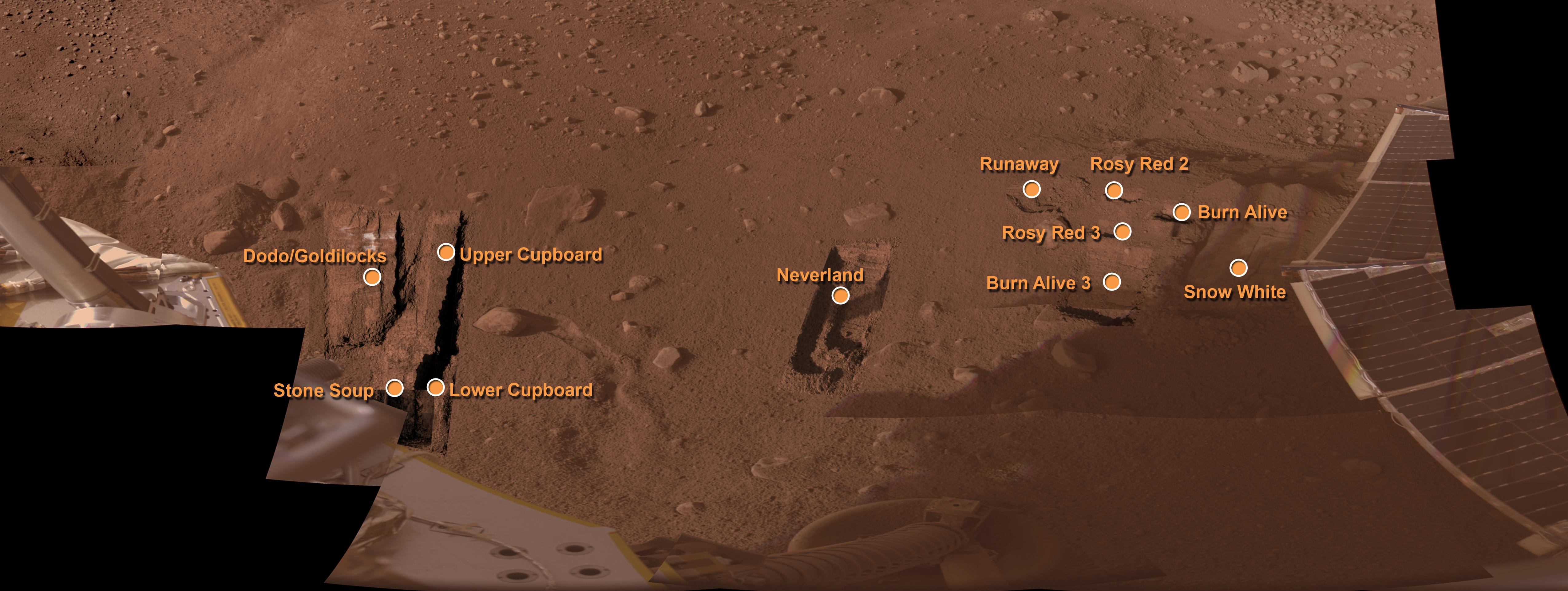 PIA11044: Phoenix's Workspace Target Name: Mars Is a satellite of: Sol (our sun) Mission: Phoenix Spacecraft: Phoenix Lander Instrument: Surface Stereo Imager (SSI) Product Size: 5100 x 1924 pixels (width x height) Produced By: University of Arizona Full-Res TIFF: PIA11044.tif (29.44 MB) Full-Res JPEG: PIA11044.jpg (864.9 kB) Click on the image above to download a moderately sized image in JPEG format (possibly reduced in size from original) Original Caption Released with Image: This mosaic of images taken by NASA's Phoenix Mars Lander's Surface Stereo Imager shows Phoenix's workspace, informally named "Wonderland," with the major trenches and features that have been informally named as of Sol 84 (August 19, 2008), the 84th Martian day after landing. The workspace is on the north side of the lander. The Phoenix Mission is led by the University of Arizona, Tucson, on behalf of NASA. Project management of the mission is by NASA's Jet Propulsion Laboratory, Pasadena, Calif. Spacecraft development is by Lockheed Martin Space Systems, Denver.